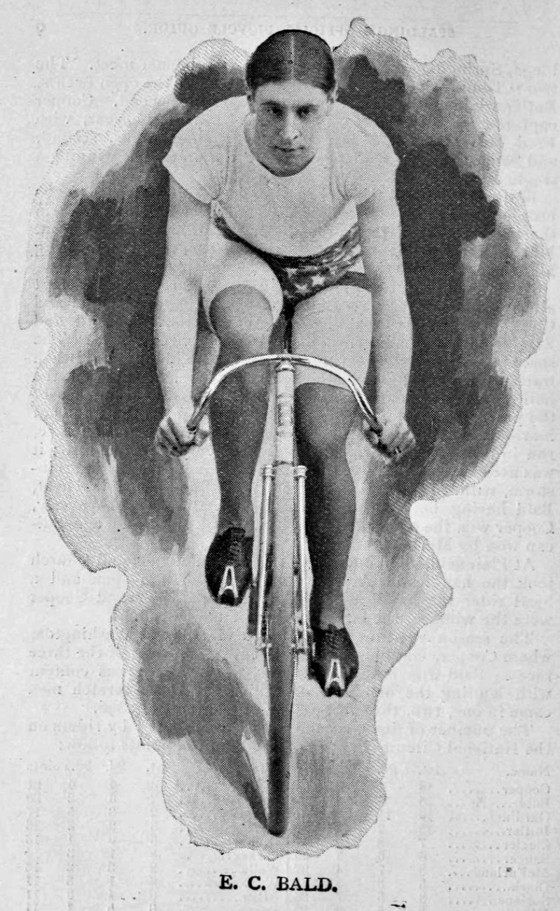 American cyclist Eddie Bald.